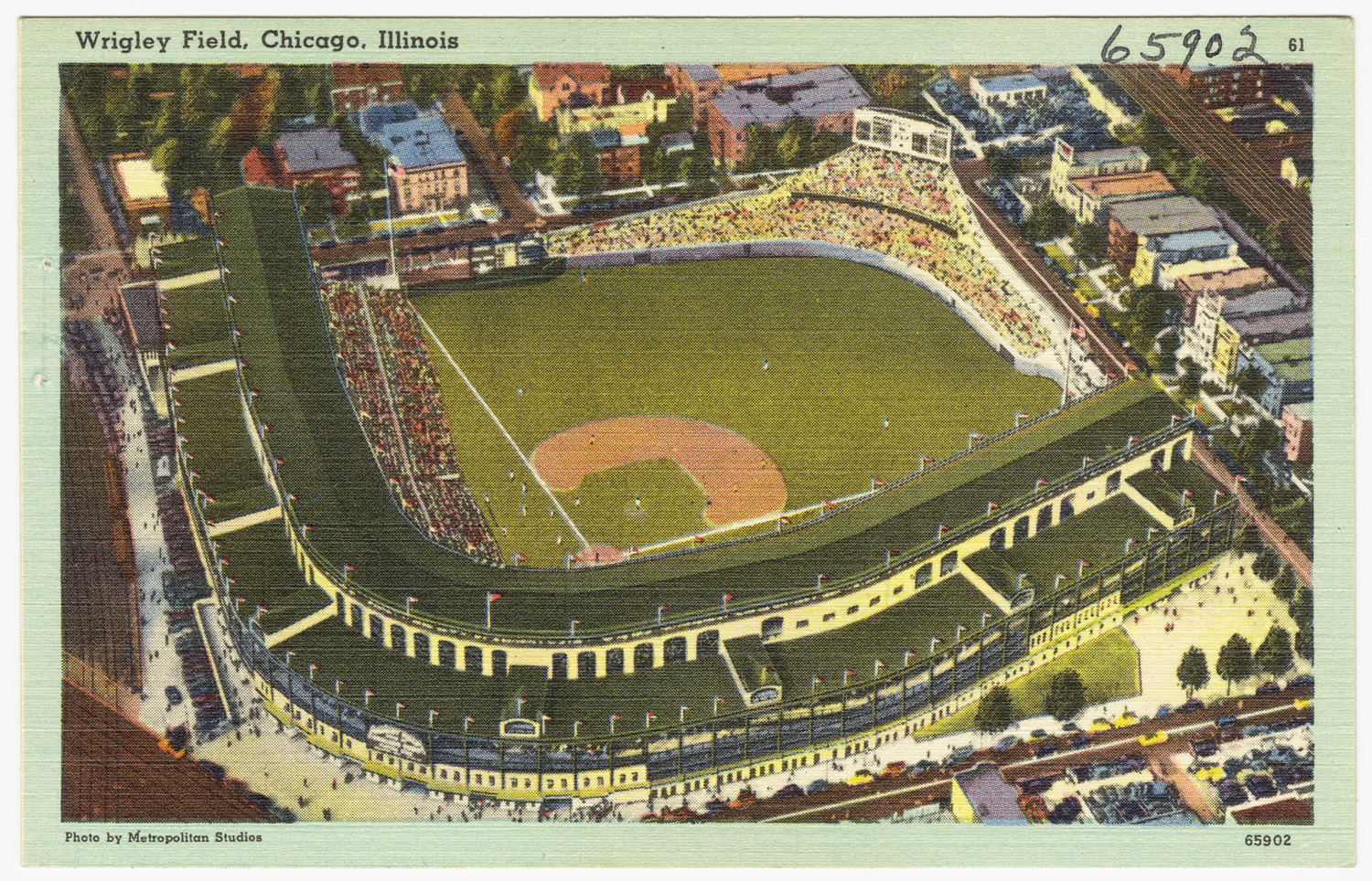 File name: 06_10_013421 Title: Wrigley Field, Chicago, Illinois Date issued: 1930 - 1945 (approximate) Physical description: 1 print (postcard) : linen texture, color ; 3 1/2 x 5 1/2 in. Genre: Postcards Subject: Stadiums Notes: Title from item. Collection: The Tichnor Brothers Collection Location: Boston Public Library, Print Department Rights: No known restrictions